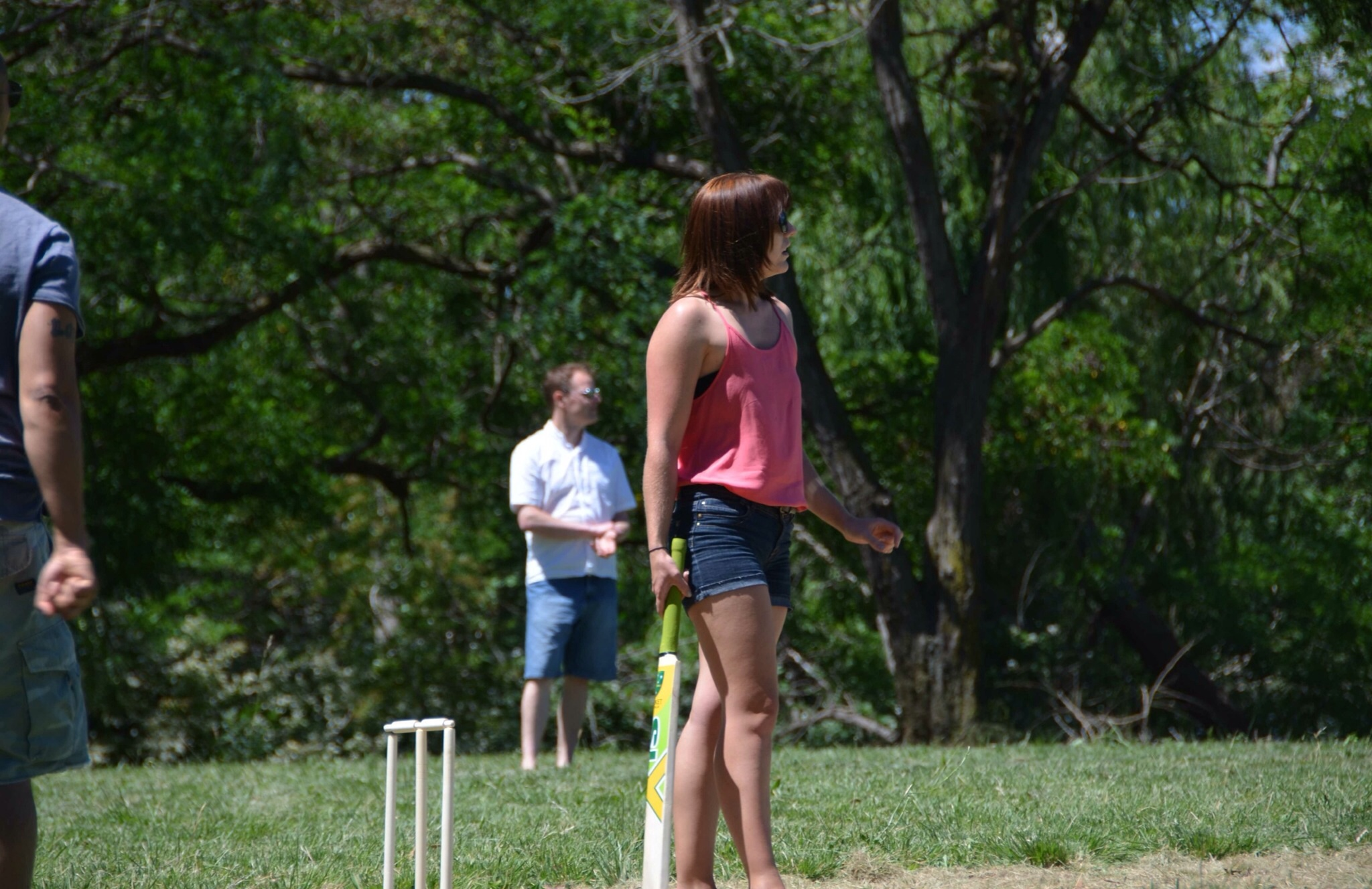 Cricketers in the mixed division final in Canberra Beach Cricket 2013, held on Springbank Island, Lake burley Griffin.